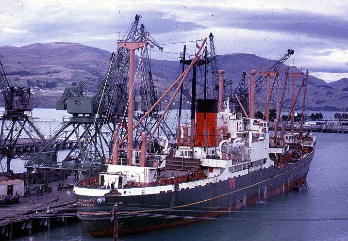 Southerly aspect from Norwich Quay. At No.4 Wharf the Union Steam Ship Company's 3,721 ton MV Kaimiro, of 1956, is loading general cargo, probably for Northern ports. Renamed Climax Topaz in 1975 and then Maldive Topaz in 1981, she was broken up in 1984. IMO number: 5179002